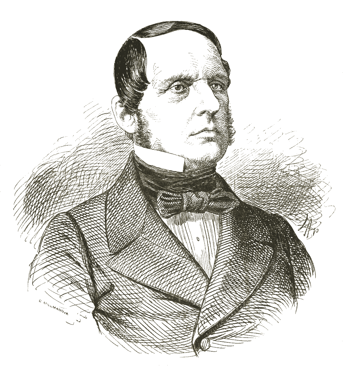 August Dehne (1796–1875), Austrian confectioner